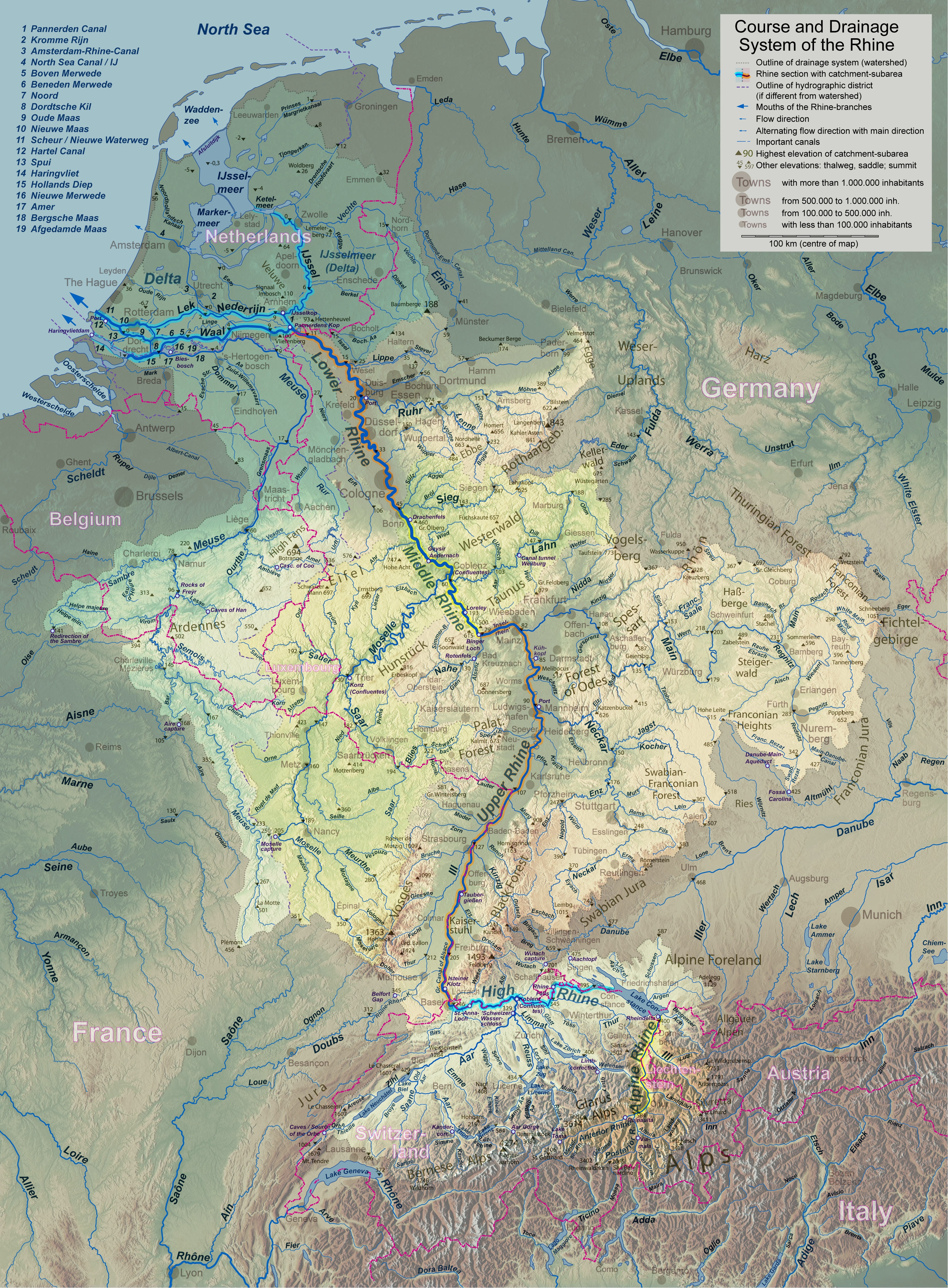 Rhine course and river system, place names in English